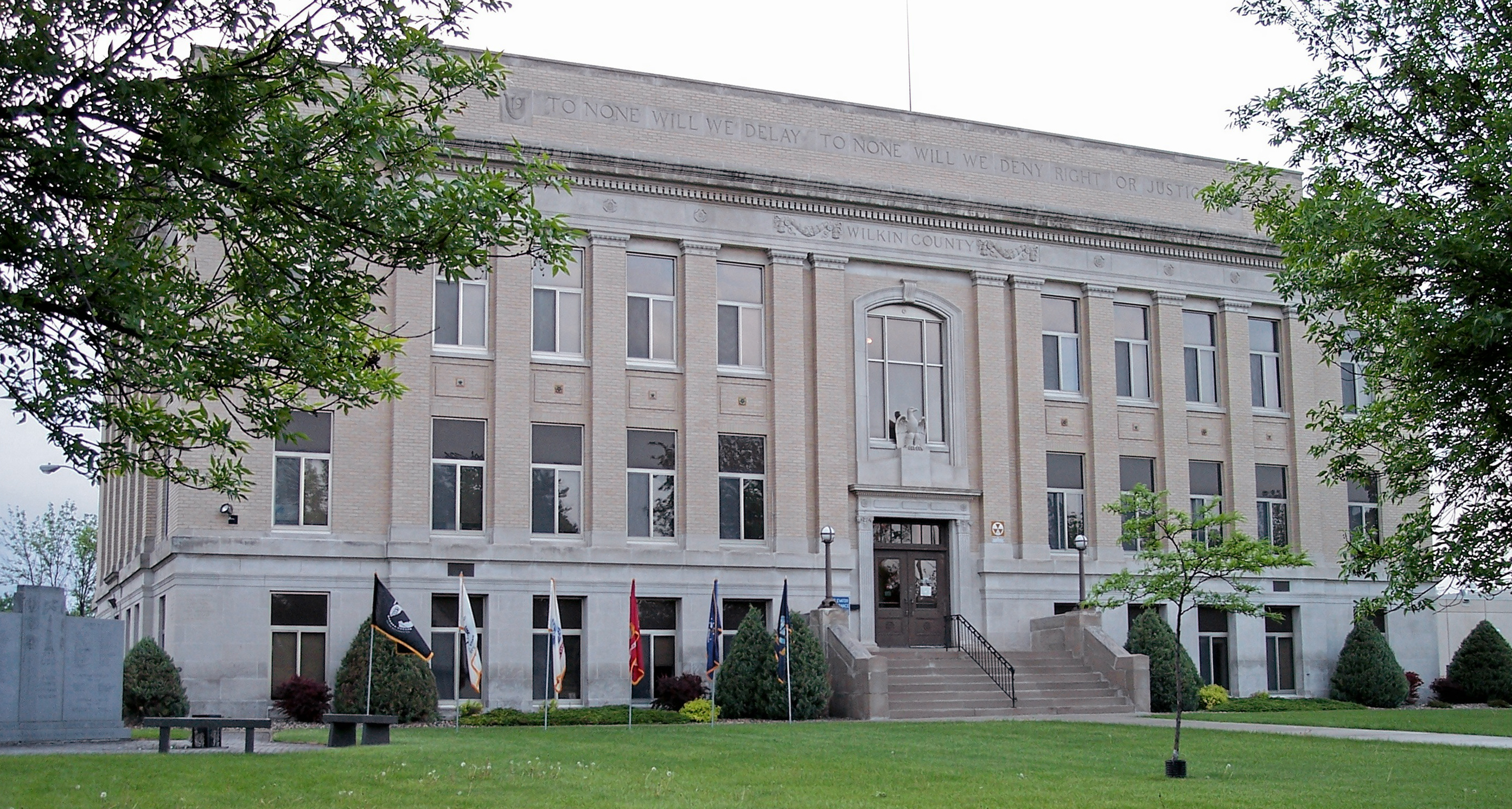 The Wilkin County Courthouse in Breckenridge, Minnesota